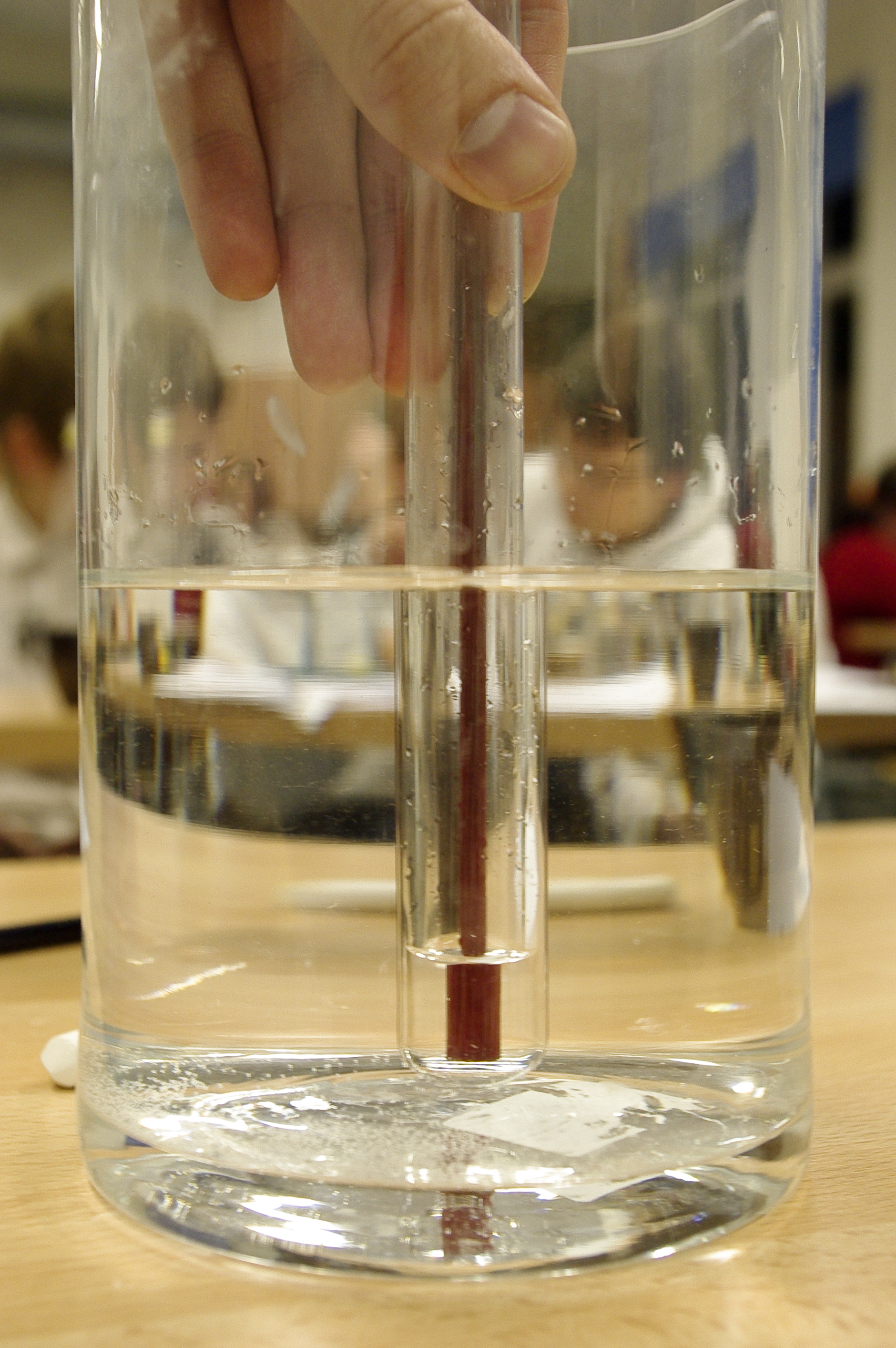 The substance isn't specified, but it's assumed to be water. Google translation of original description: "Light refraction in different environments"